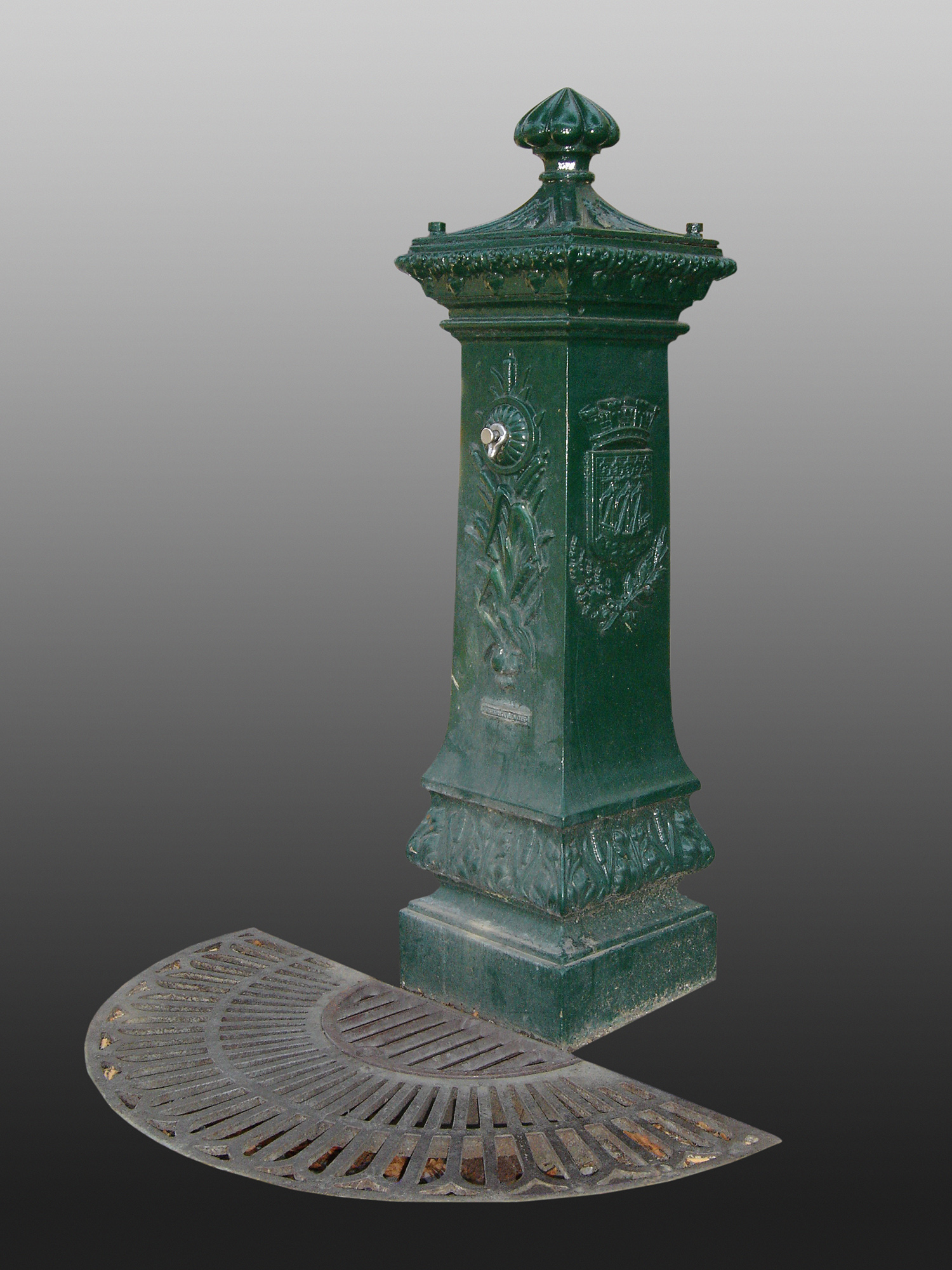 Small model of the so-called Wallace fountain located in front of the Pasteur boulevard #35, 15th arrondissement, Paris, France.